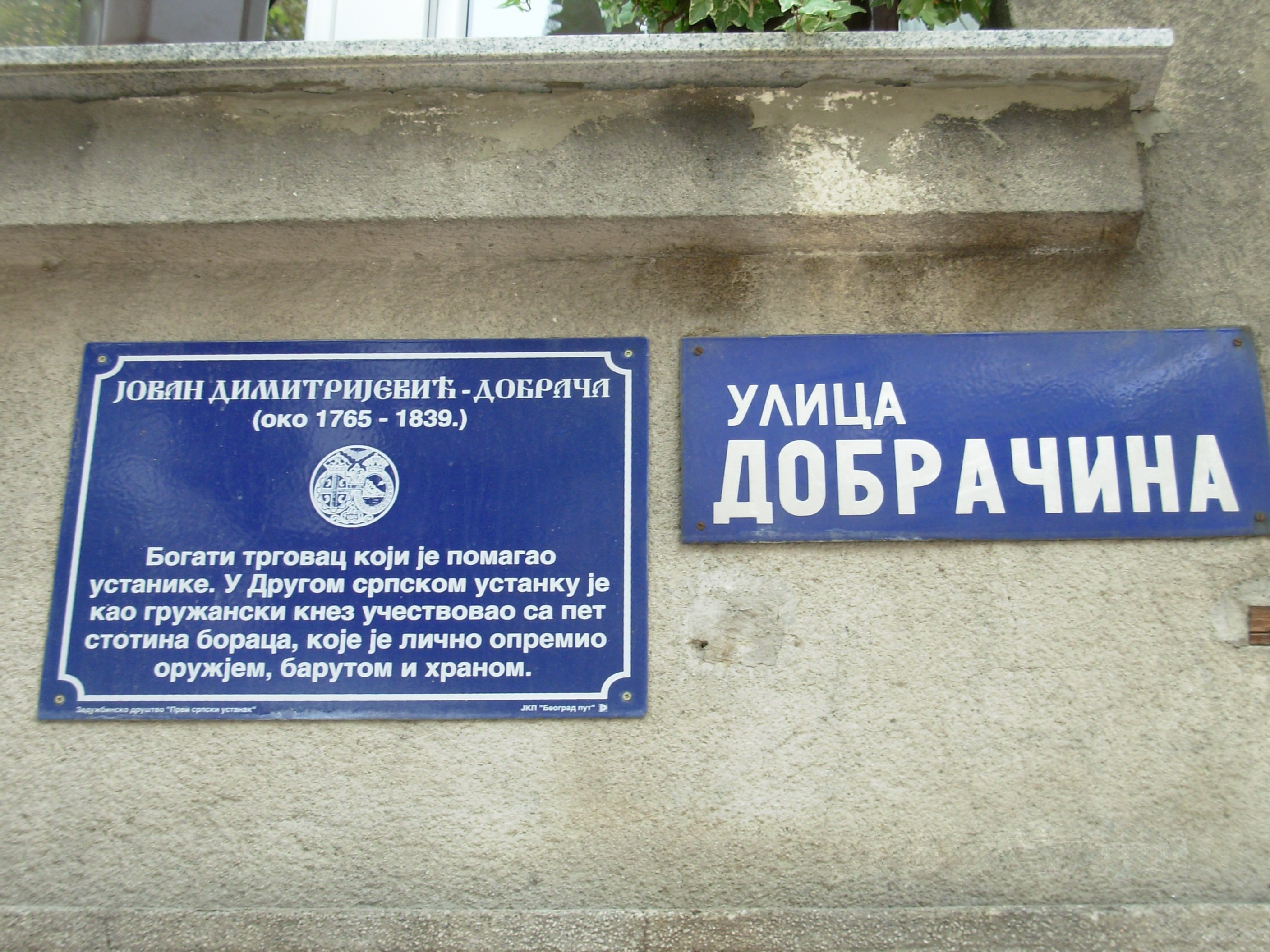 Street sign of the Dobrača street in Belgrade, named after Jovan Dimitrijević Dobrača.